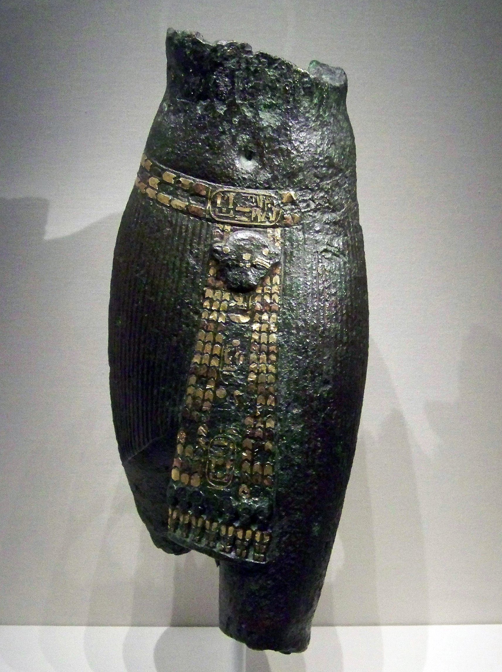 The torso of a large bronze statue for pharaoh Pedubast I. The restored cartouche on the statue's belt buckle reads as: "Usermaatre-Chosen-of-Amun, Pedubaste Son-of-Bastet-Beloved of Amun." This rare piece of Ancient Egyptian statuary for this Egyptian king is today located on permanent display in the Calouste Gulbenkian Museum in Lisbon, Portugal.